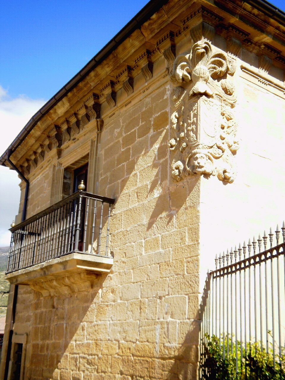 Casa de las Verjas, en Ábalos (La Rioja, España)